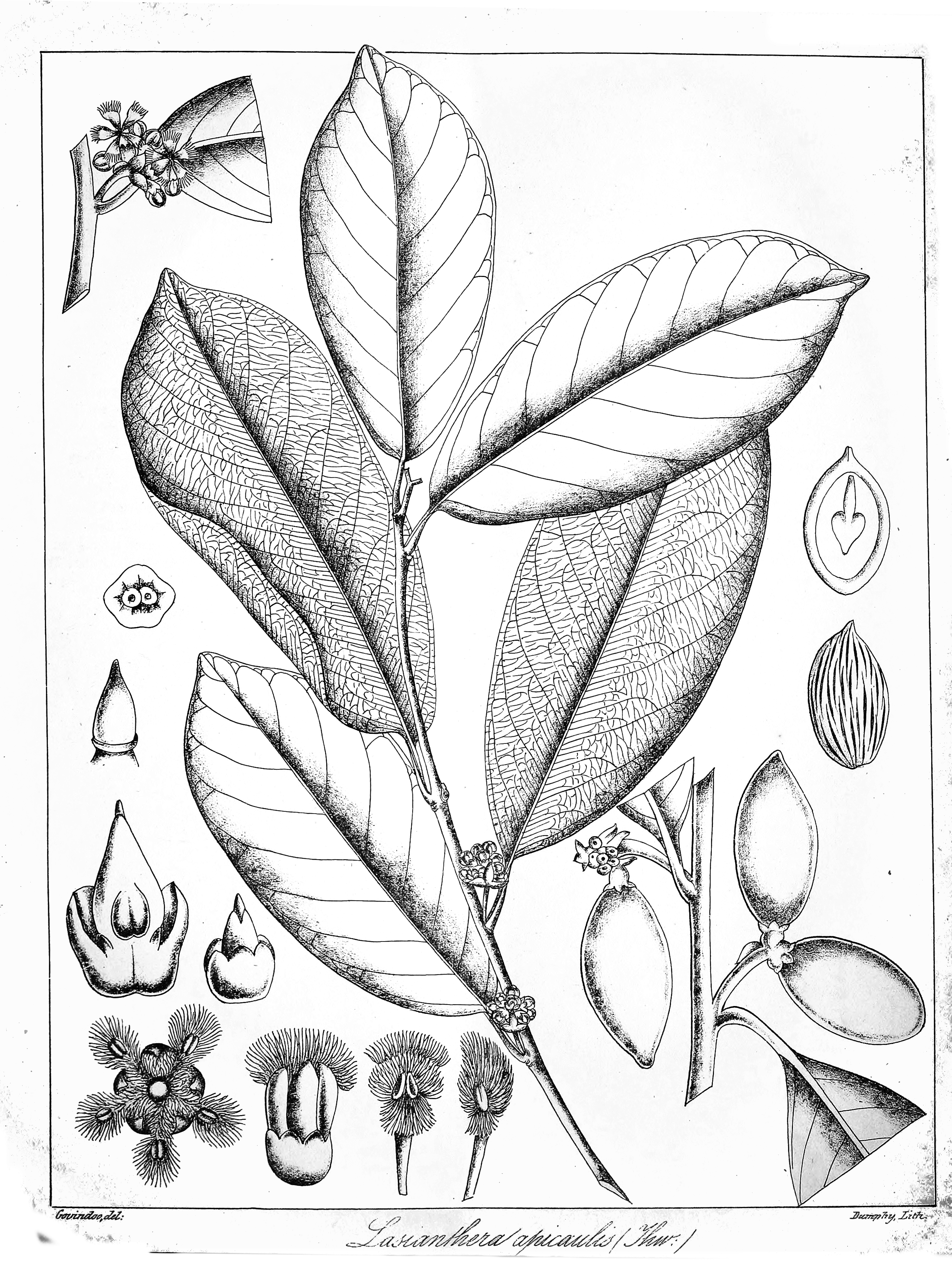 Lasianthera apicaulis